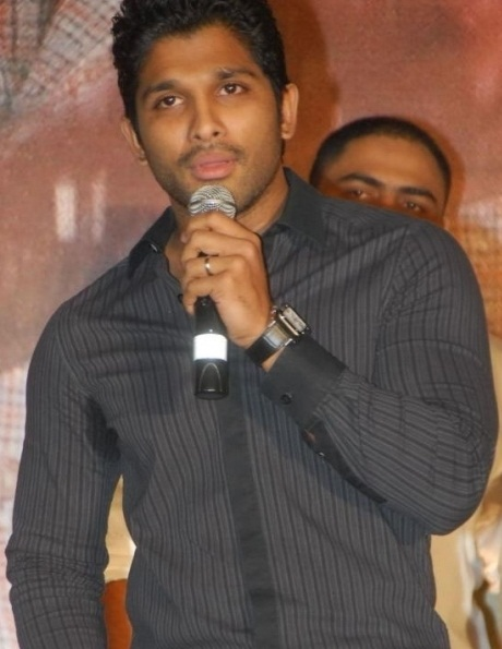 Actor Allu Arjun at the audio launch of the Telugu dubbed version of Eeram (2009) titled Vaishali in April 2011. Cropped from the original.